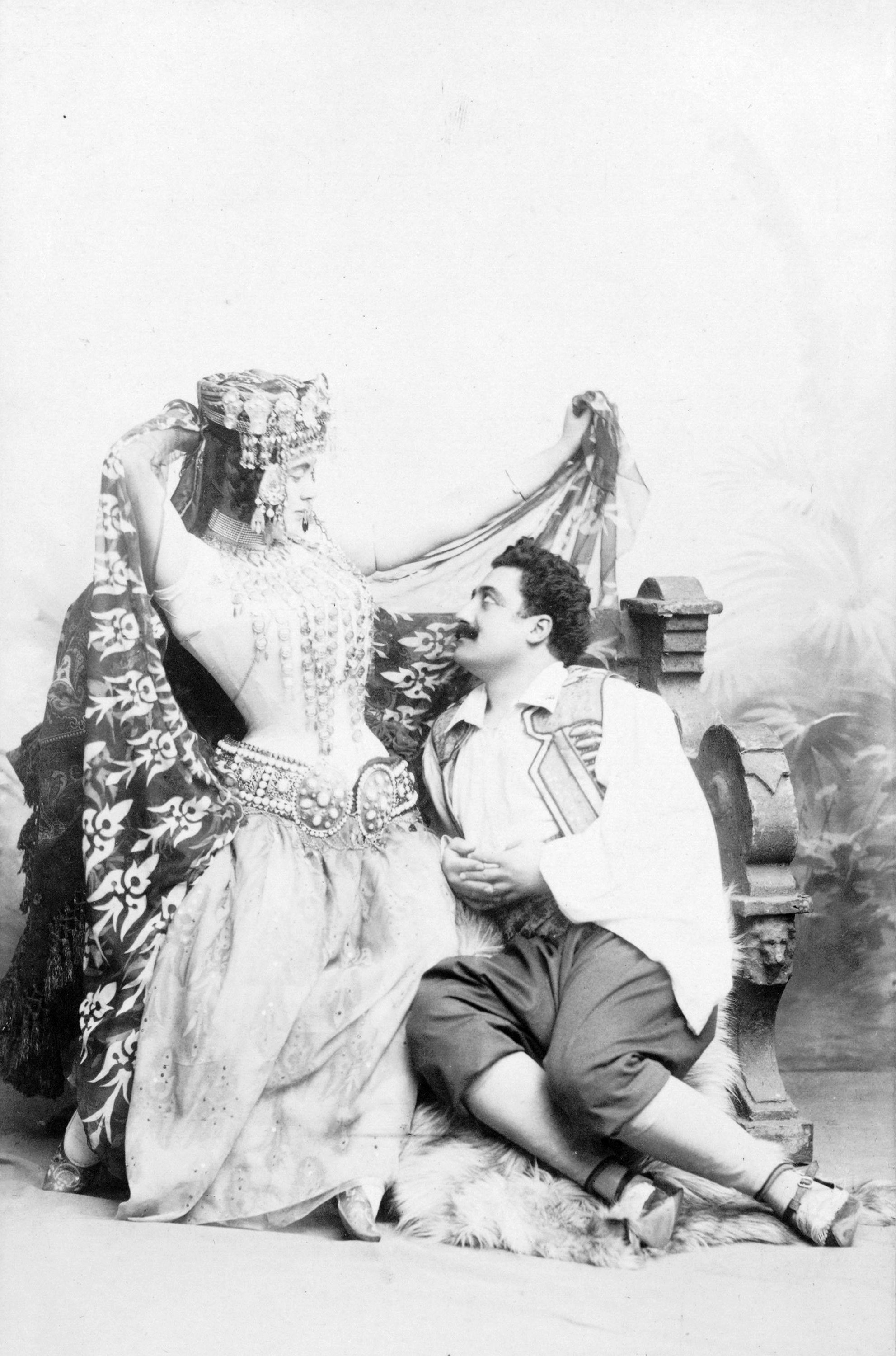 Maurice Renaud (1861-1933) and Lucienne Bréval (1869-1935) in La Montagne noire by Augusta Holmès (1847-1903).